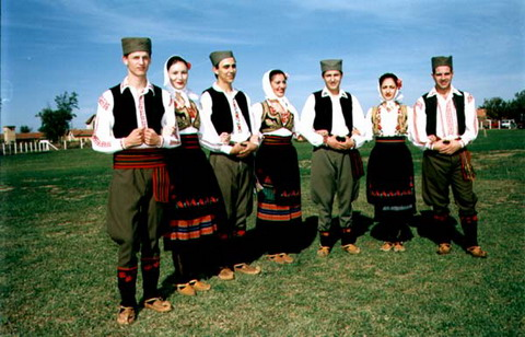 Serbian national costume